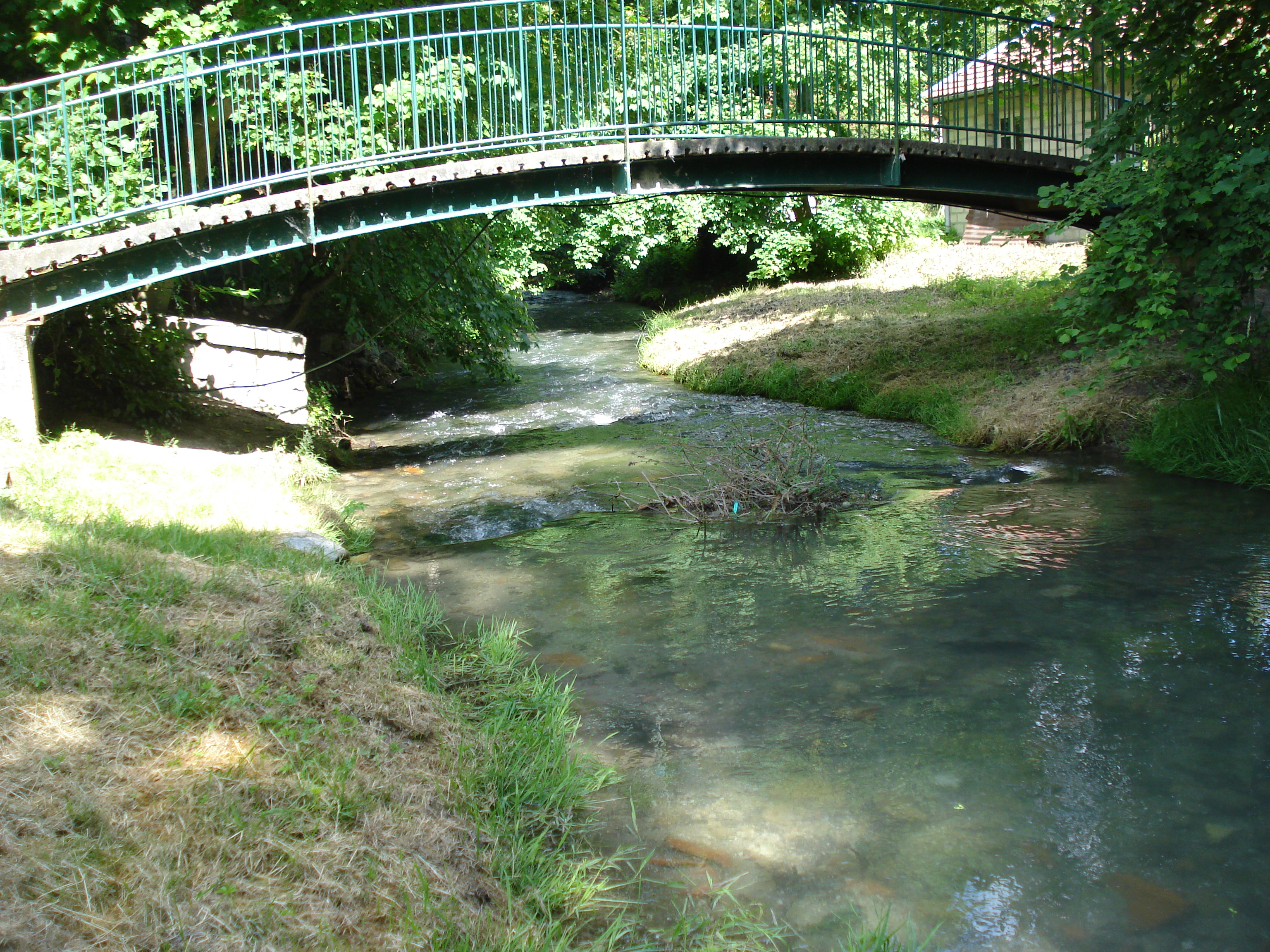 Retourne River at Juniville (Ardennes, Fr).